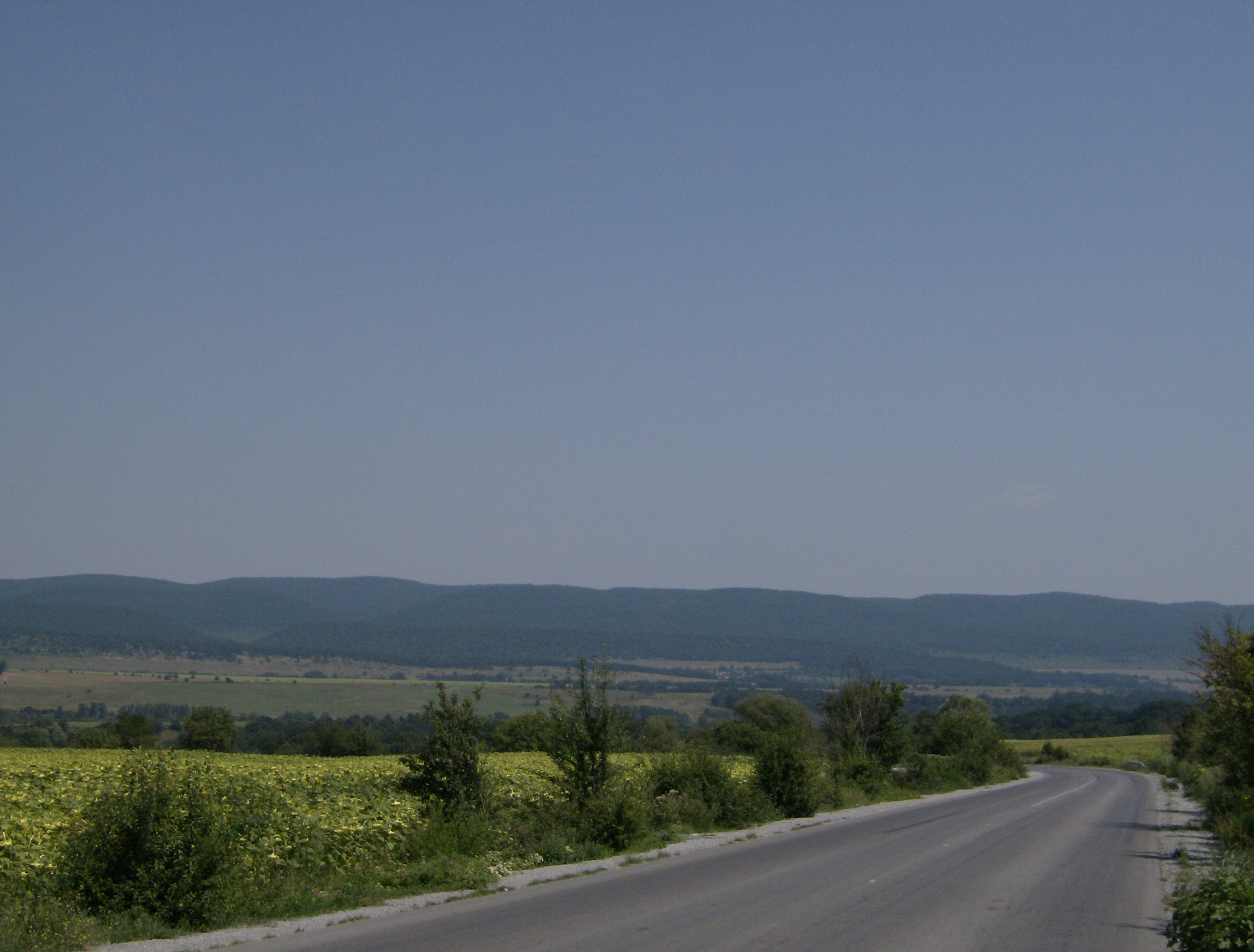 Rishka hollow